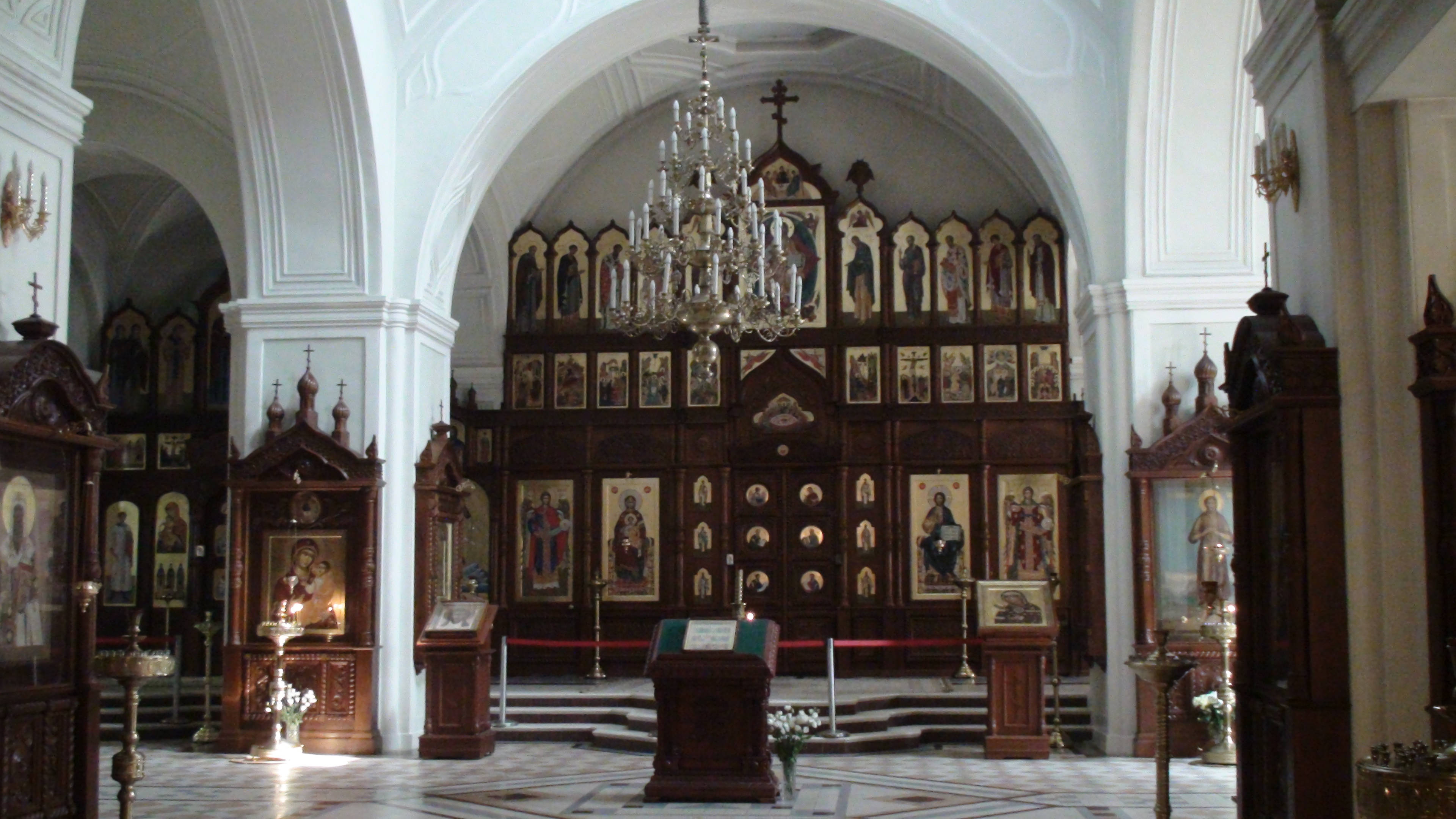 Алексеевский храм Москва